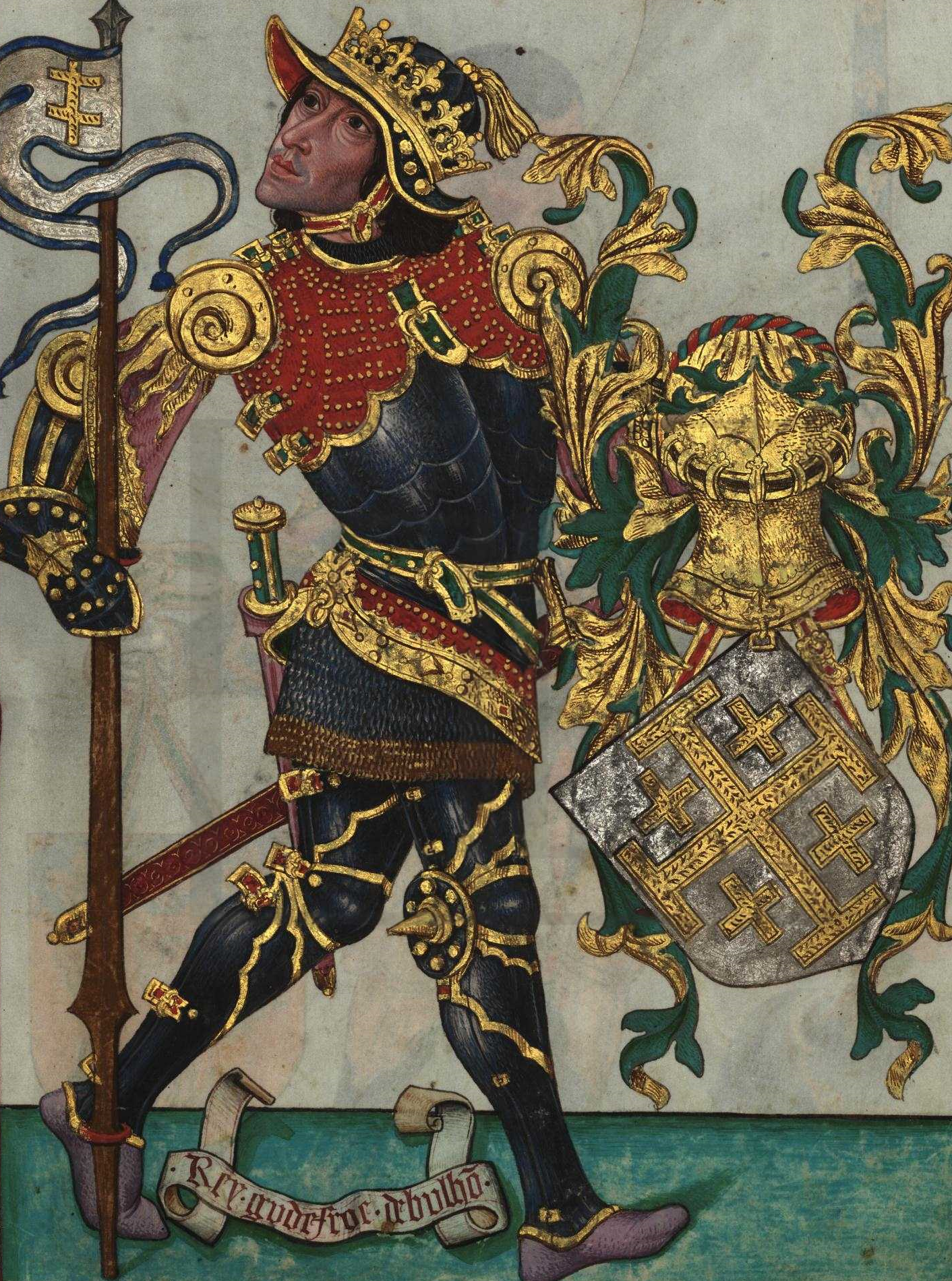 Miniature of Godfrey of Bouillon, in the Livro do Ameiro-Mor (1509).